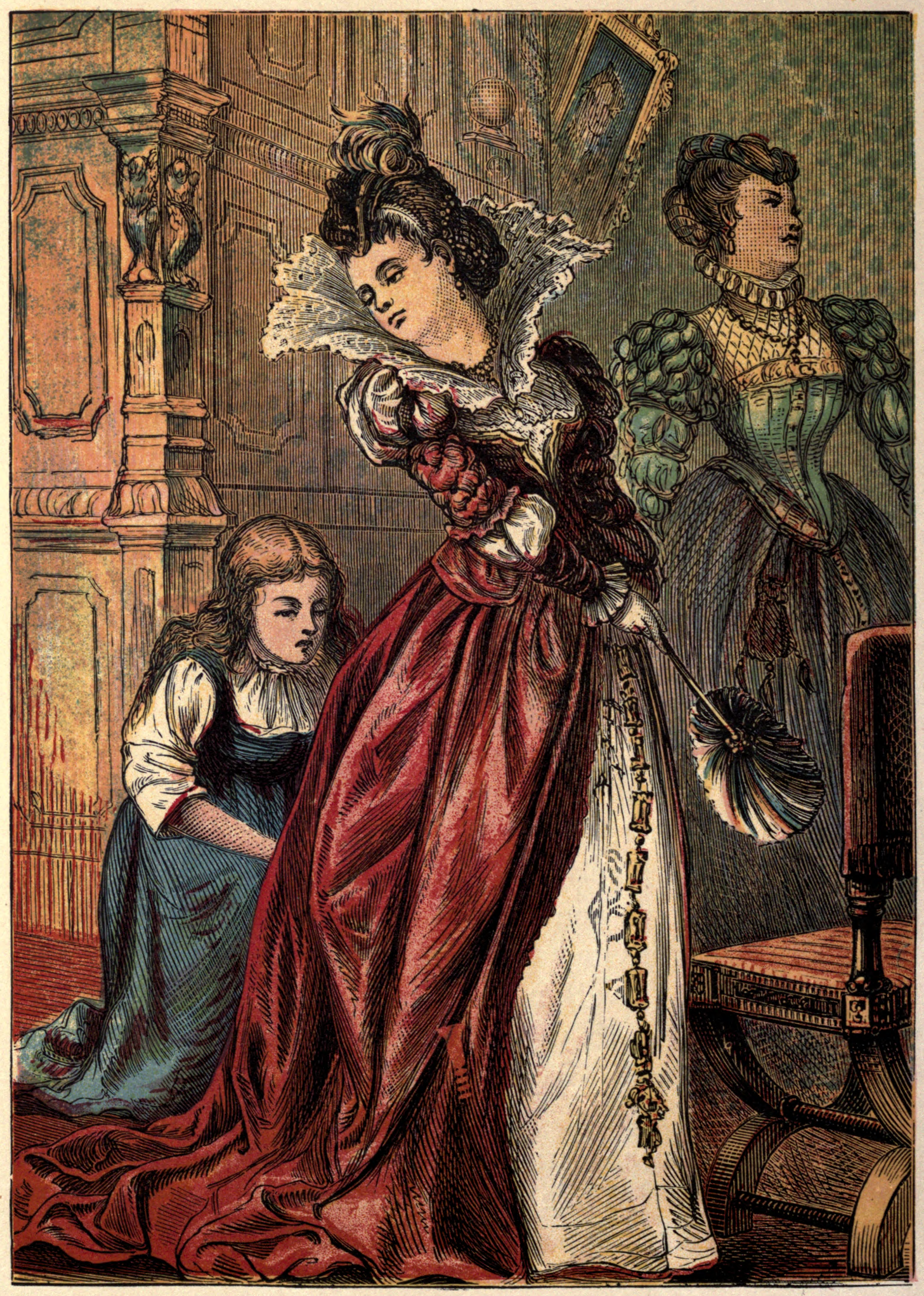 The second illustration of the 1865 edition of Cinderella. It appears on page 4.